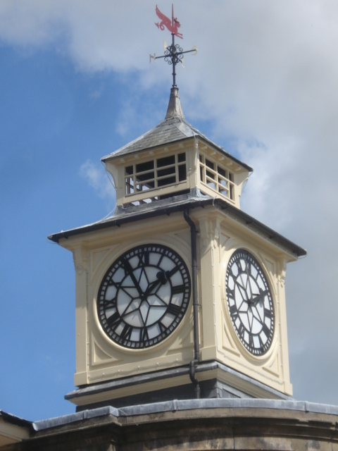 Clock tower on the town hall This fine clock crowns the town hall. It also chimes loudly, which we were told can be disturbing for those staying at the hotel next door!